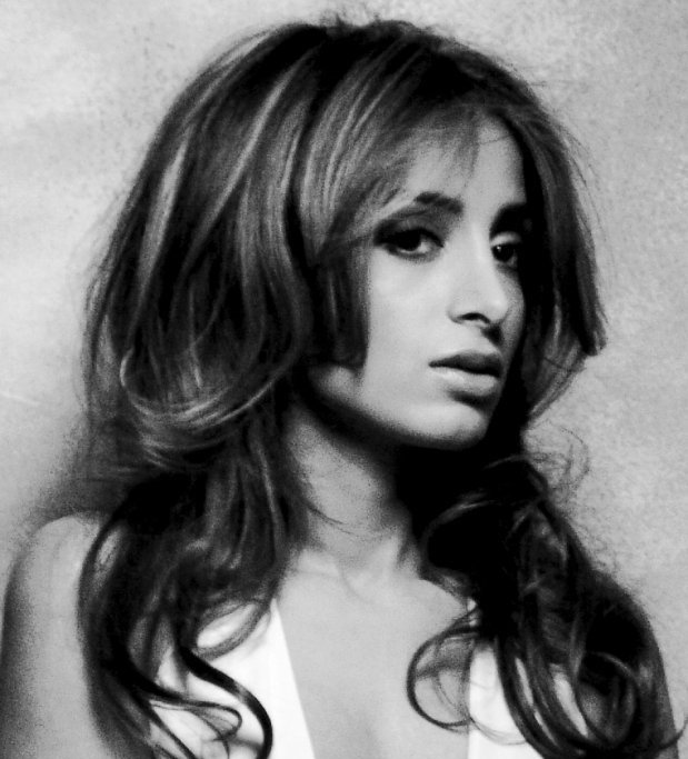 Deeyah, Norwegian musician and human rights activist.